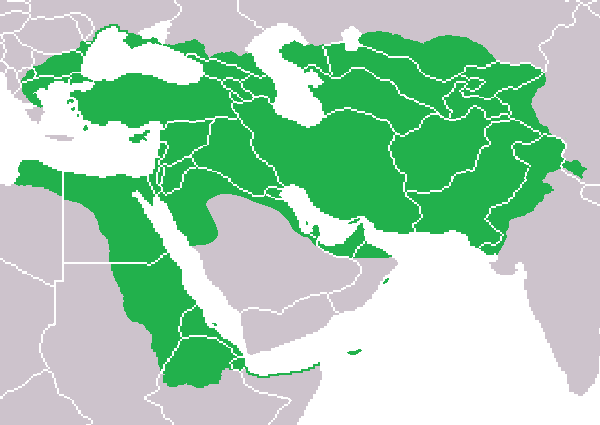 Map of the Achaemenid Empire at its greatest extent by around ~480 BC.